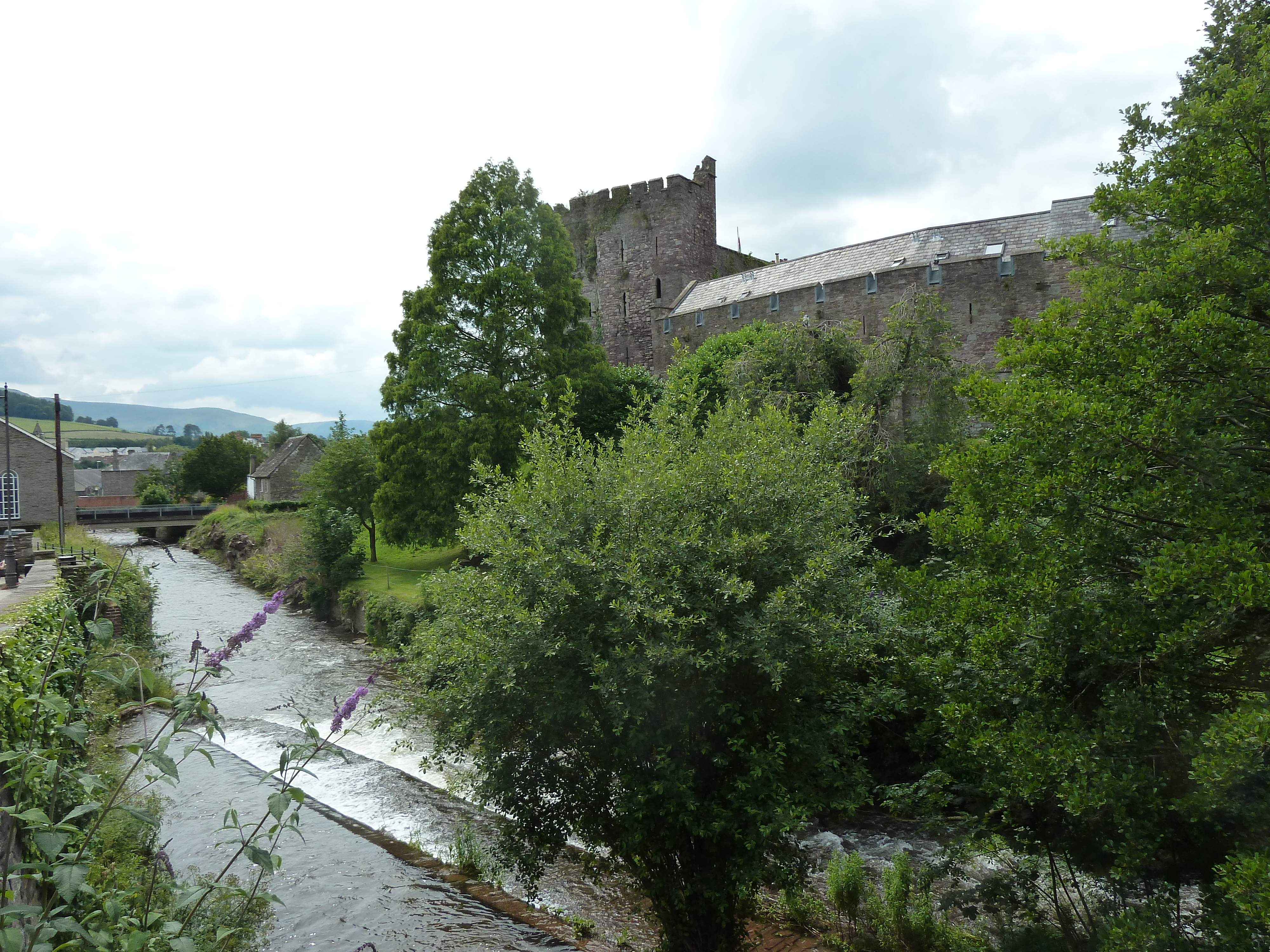 Brecon Castle, from the bridge over the river Honddu